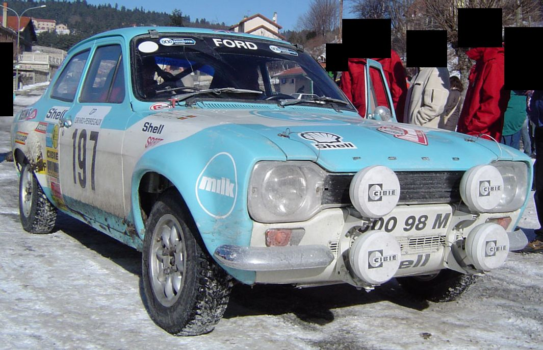 RallyCar Ford Escort Mk1 RS1600